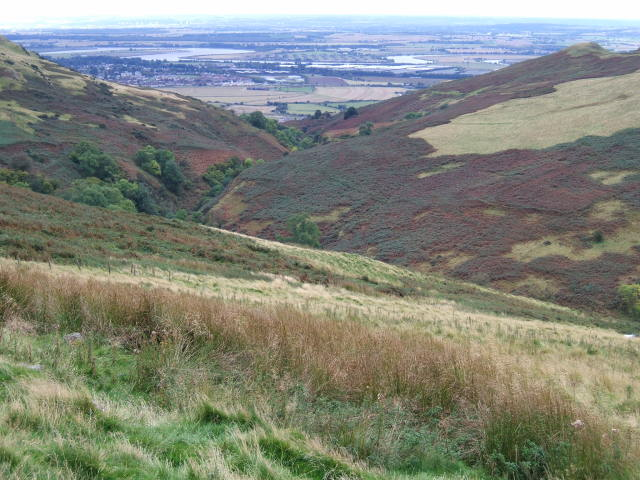 Lower Menstrie Glen, looking south from NS 842 993. The higher valley sides support rough grazing. Old field-boundaries are visible in the backen. Broad-leaved trees populate the deeply-cut ravine of the Menstrie Burn. In the distance the River Forth meanders across its flood plain.